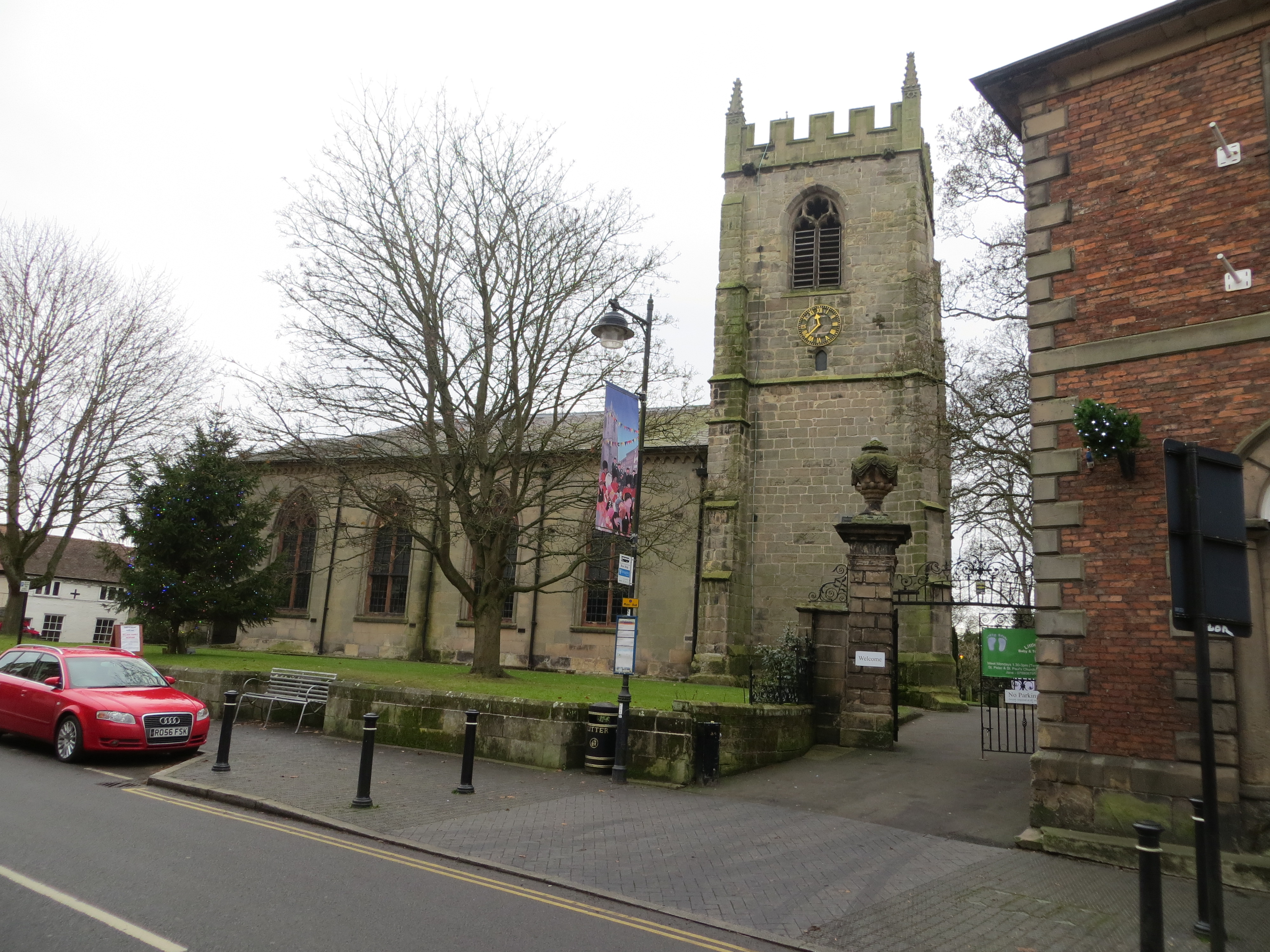 Photograph of the Church of St Peter and St Paul, Wem, Shropshire, England